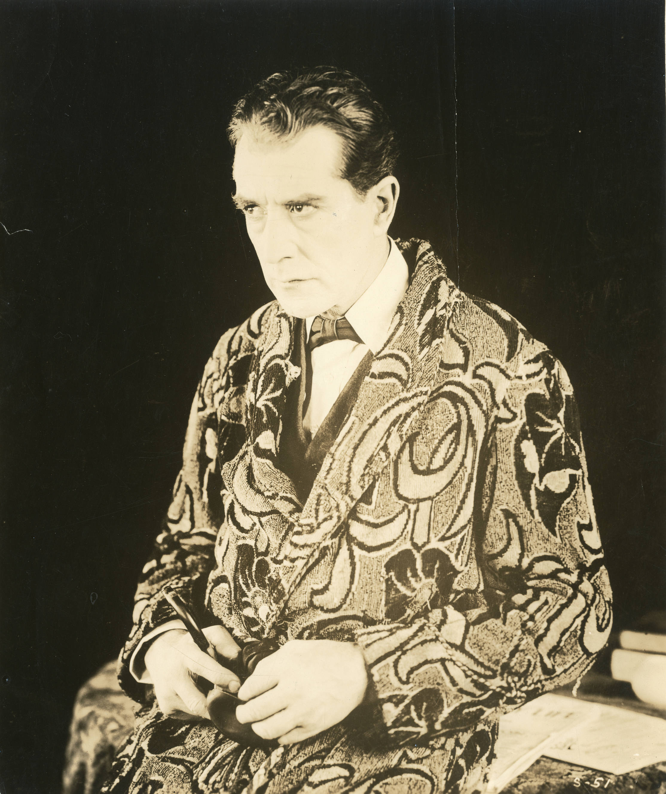 Eille Norwood, silent film actor Subjects: actors